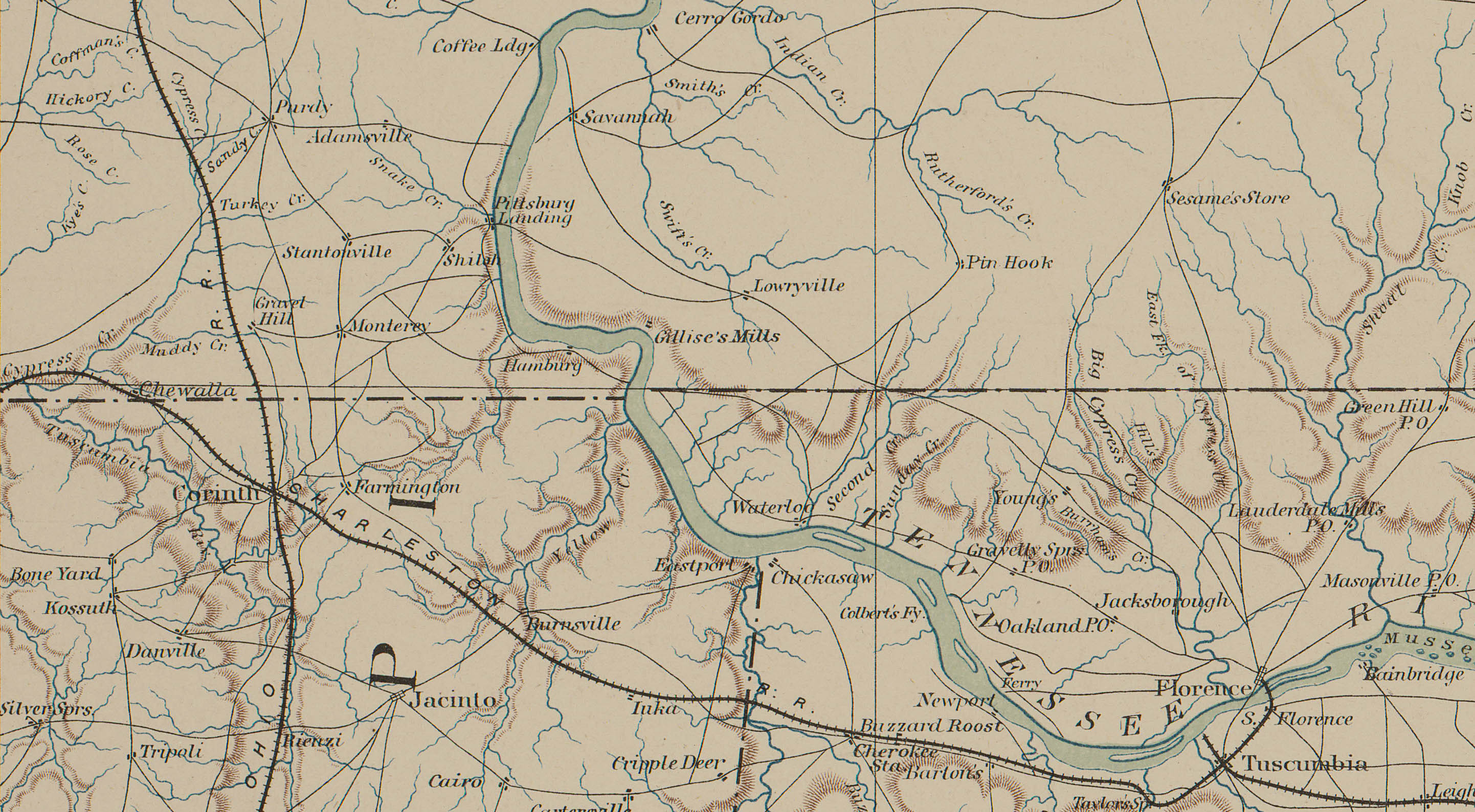 The Tennessee-Alabama-Mississippi tristate area during the Civil War